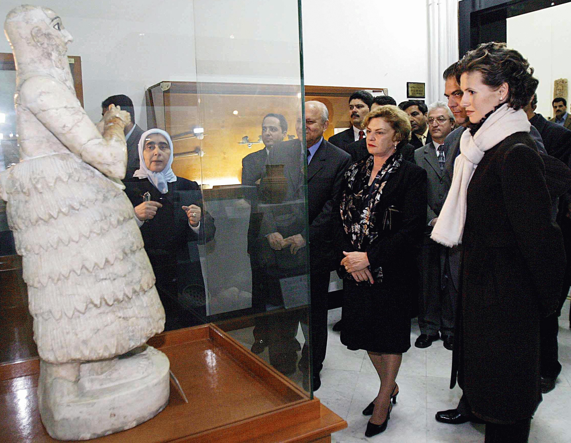 Asma al-Assad and the first lady of brazil, Marisa Leticia, in the National Museum of Syria.